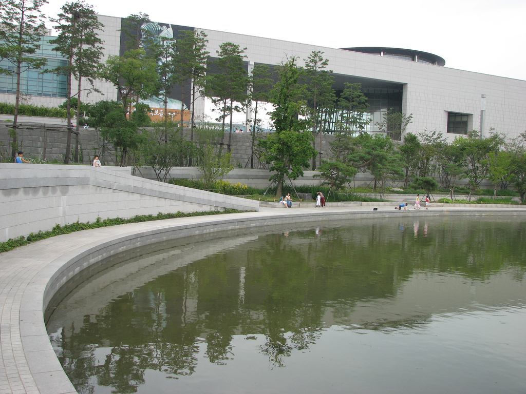 exterior of Museum.